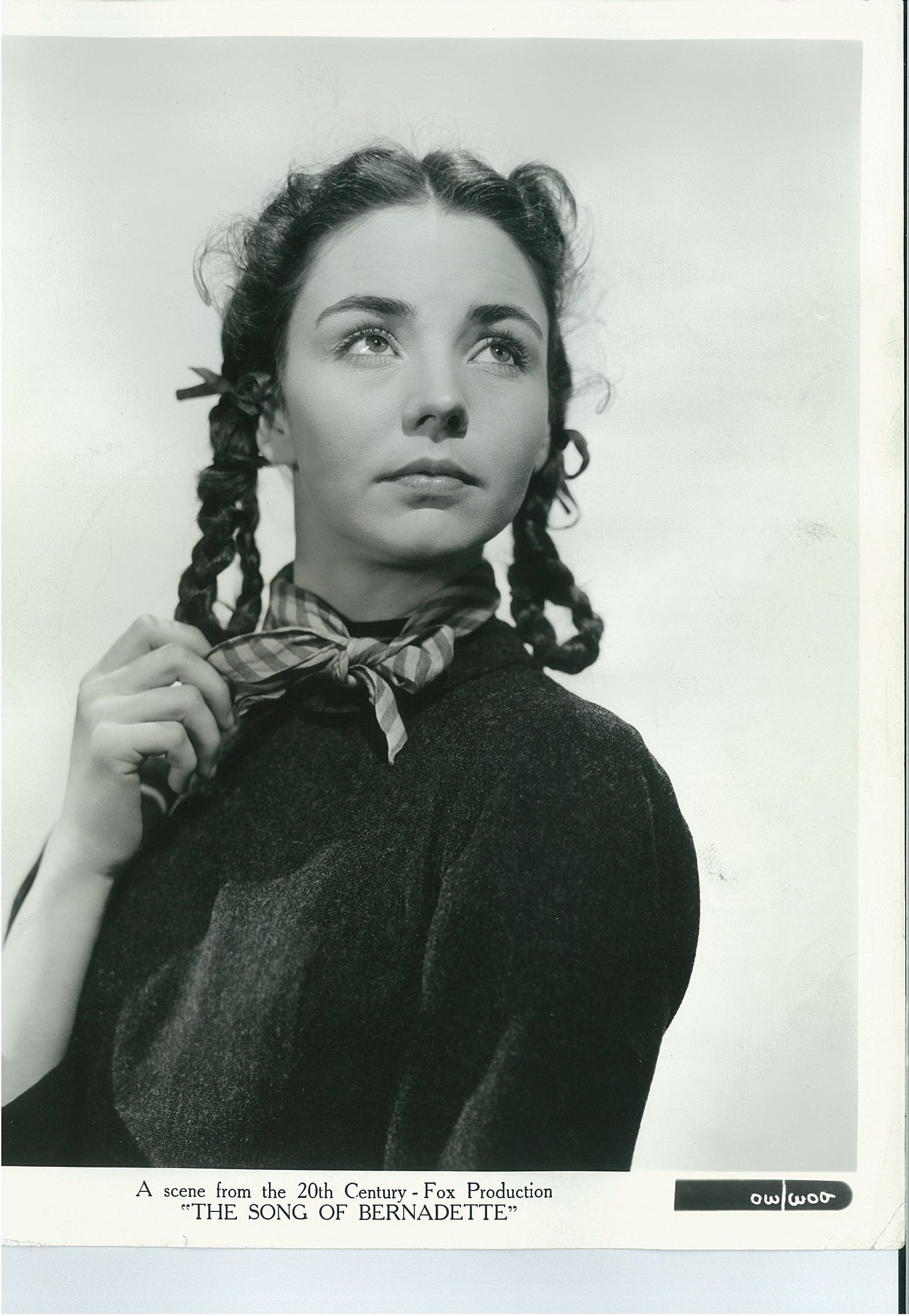 Studio portriat photo of Jennifer Jones taken for promotional use from 20th Century Fox Production, The Song of Bernadette (1943).